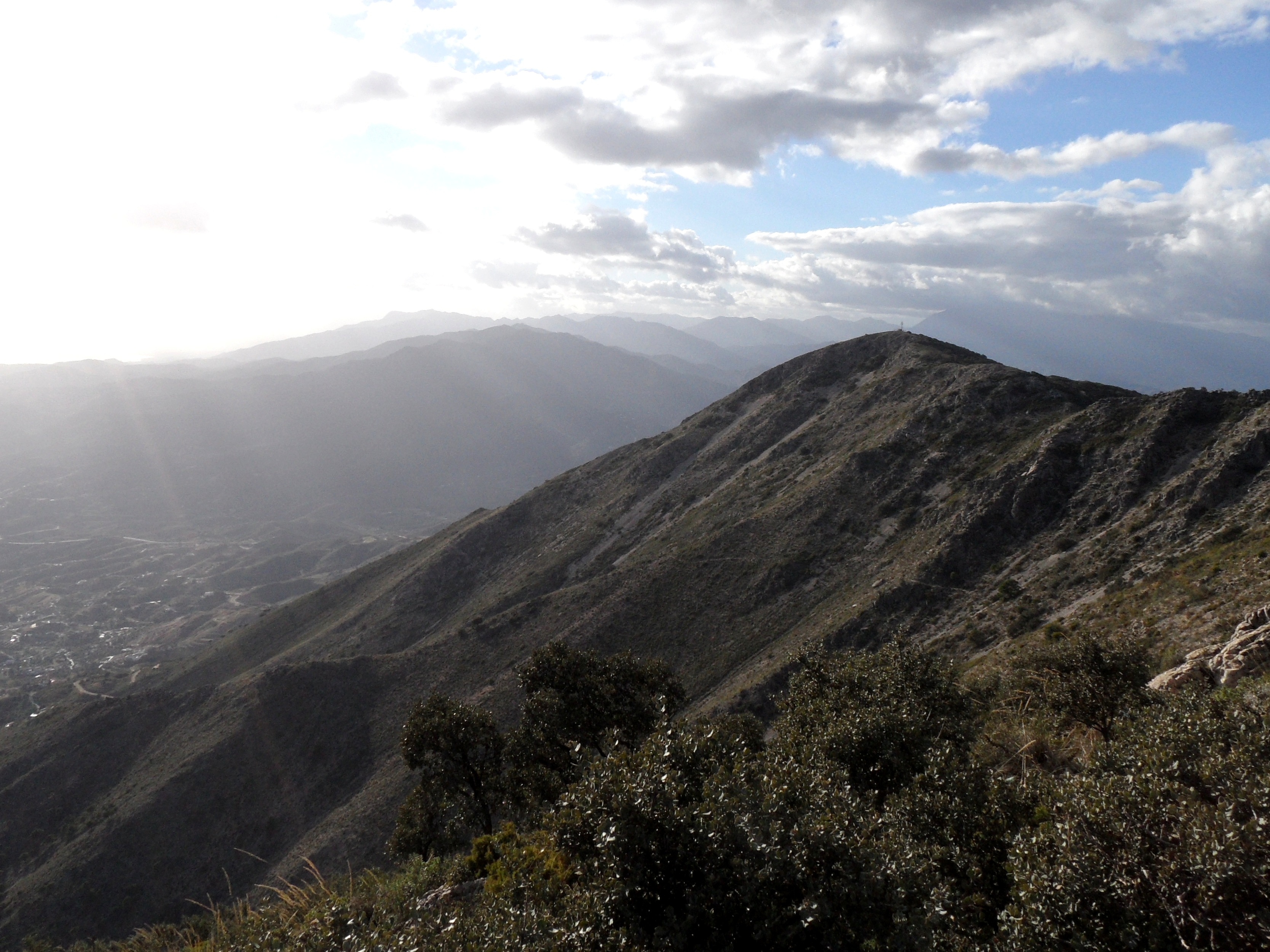 View of Sierra Mijas looking west from Pico Mijas